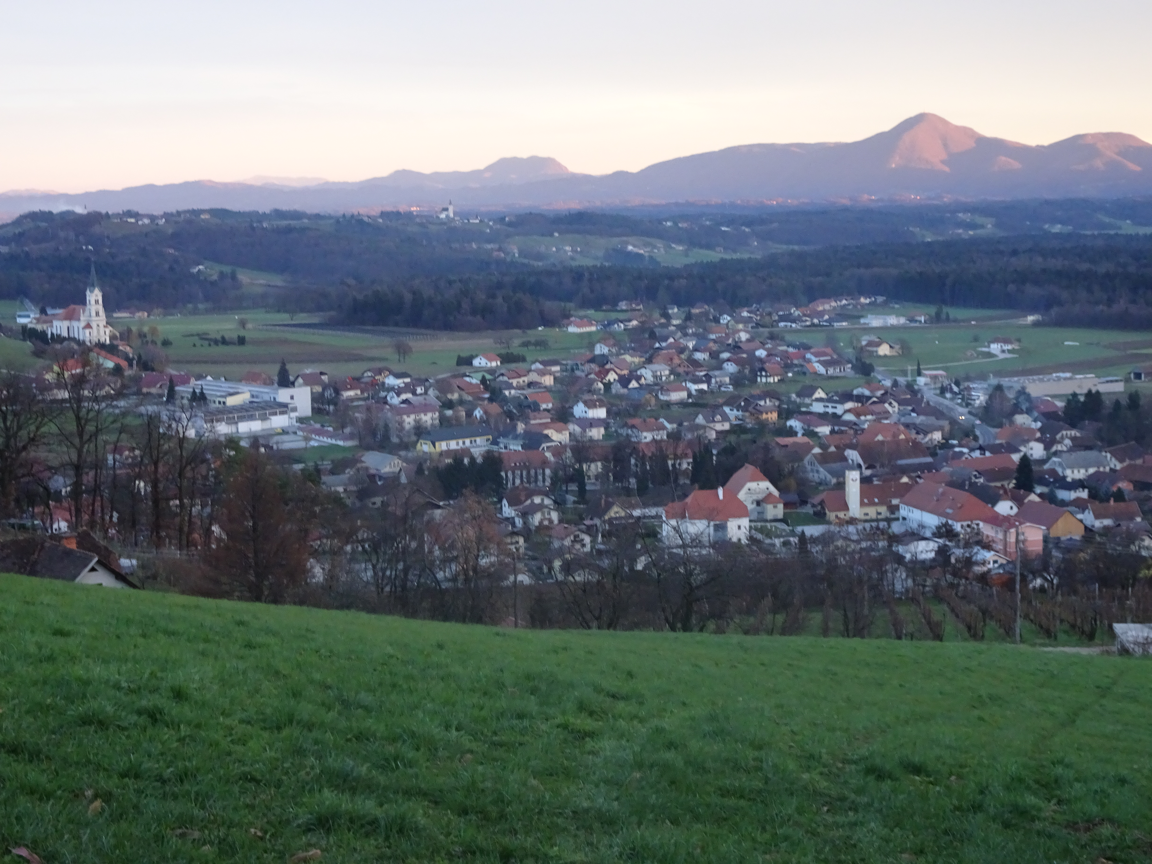 Oplotnica panoramic view